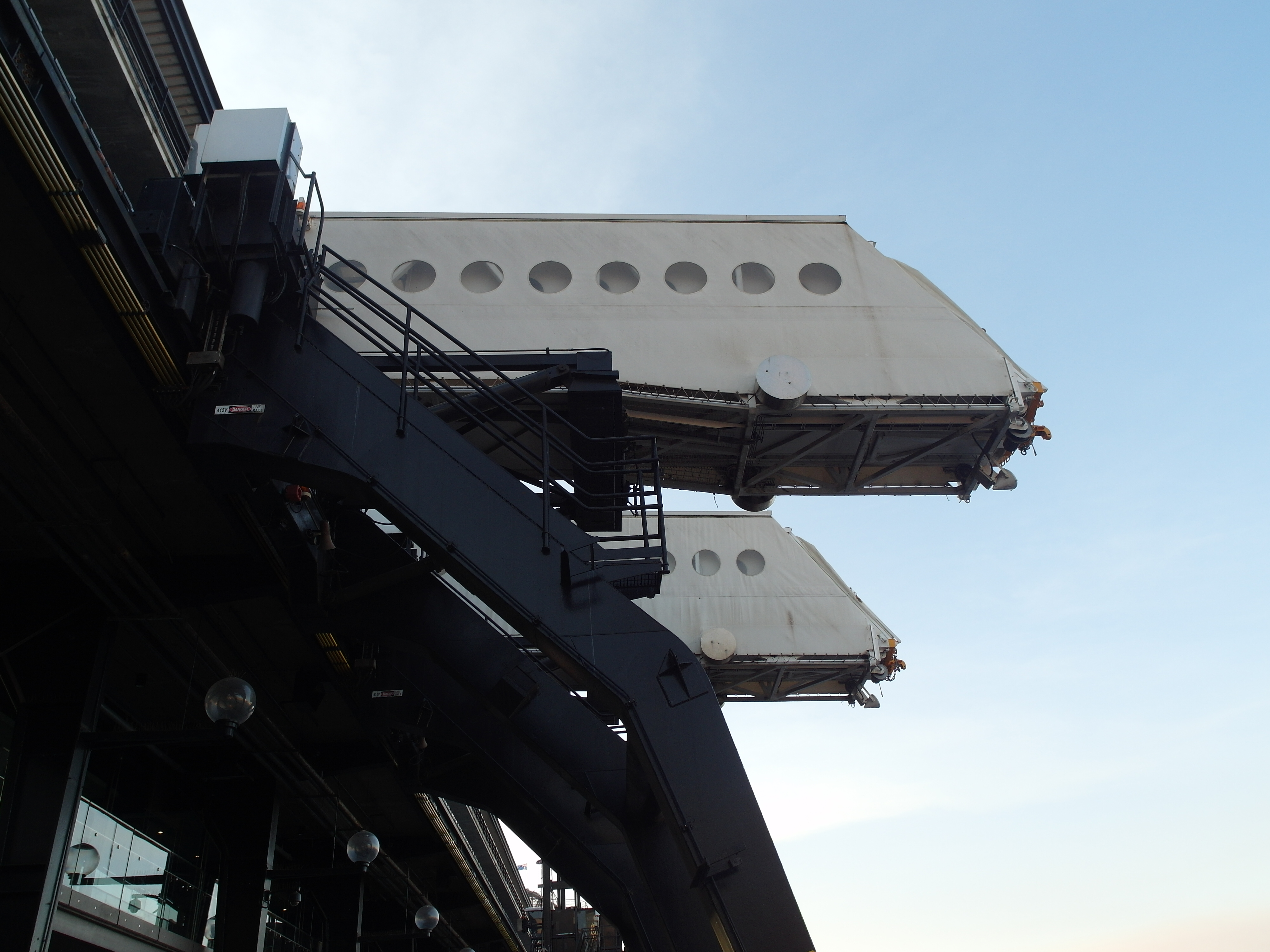 The photo highlights the extendable gangways of the Overseas Passenger Terminal building, located in Sydney, Australia. These gangways date from the original structure of the 1950s and are currently (As at August 2015) listed on the State Heritage Register of New South Wales as items which contribute to the significance of the building fabric.